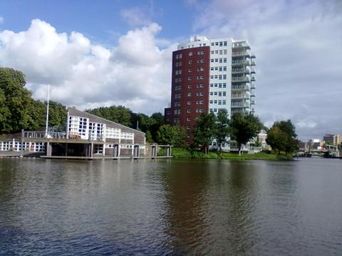 De Westerhaven zwaaikom in het Verbindingskanaal in de stad Groningen